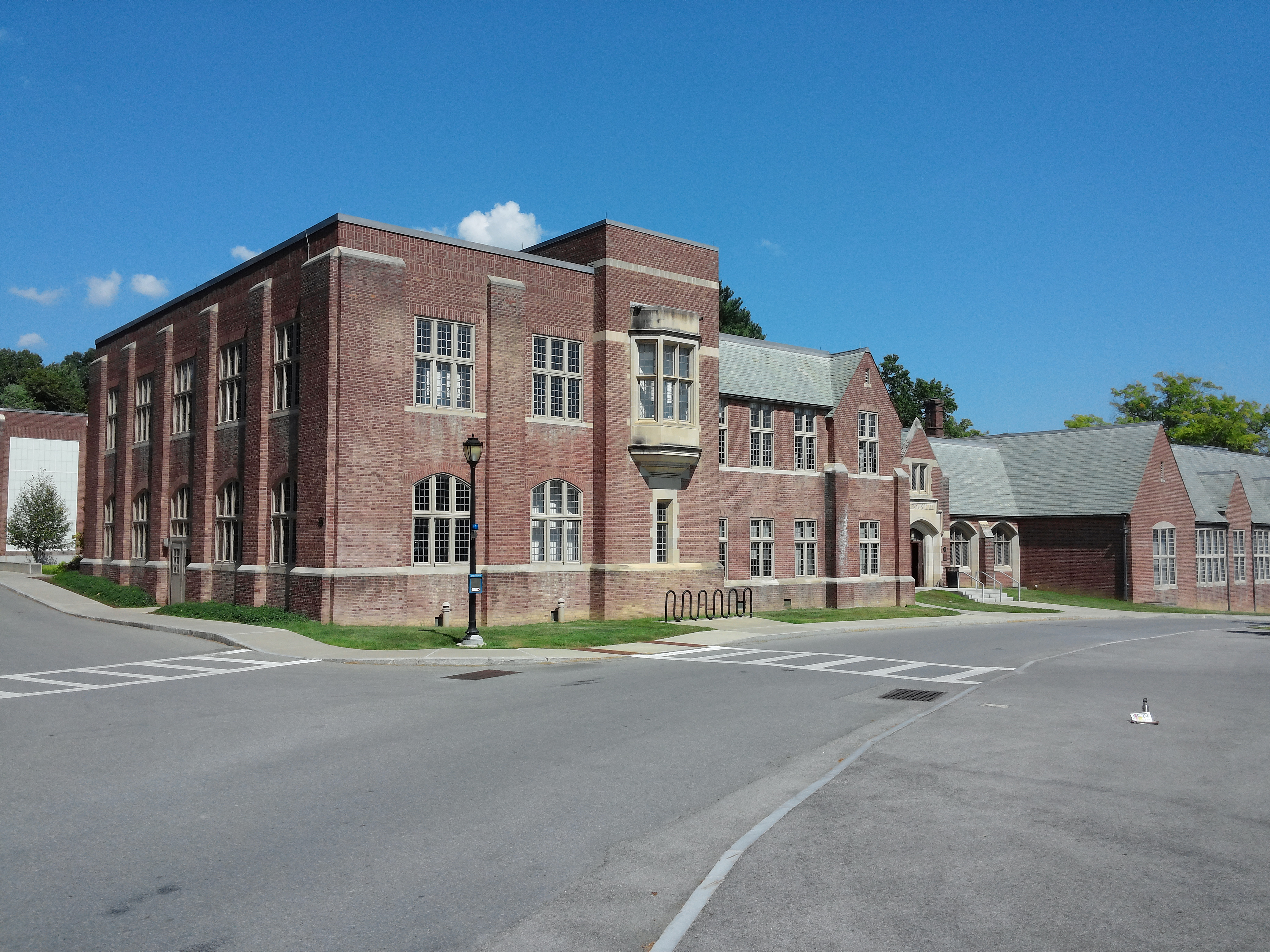 Kenyon Hall, the building housing the dance department, volleyball, and squash courts on the campus of Vassar College.